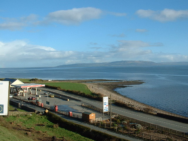 Vance's Point, Inishowen. Looking down on Vance's Point from the church. Northern Ireland can be seen on the far side of the Foyle estuary.